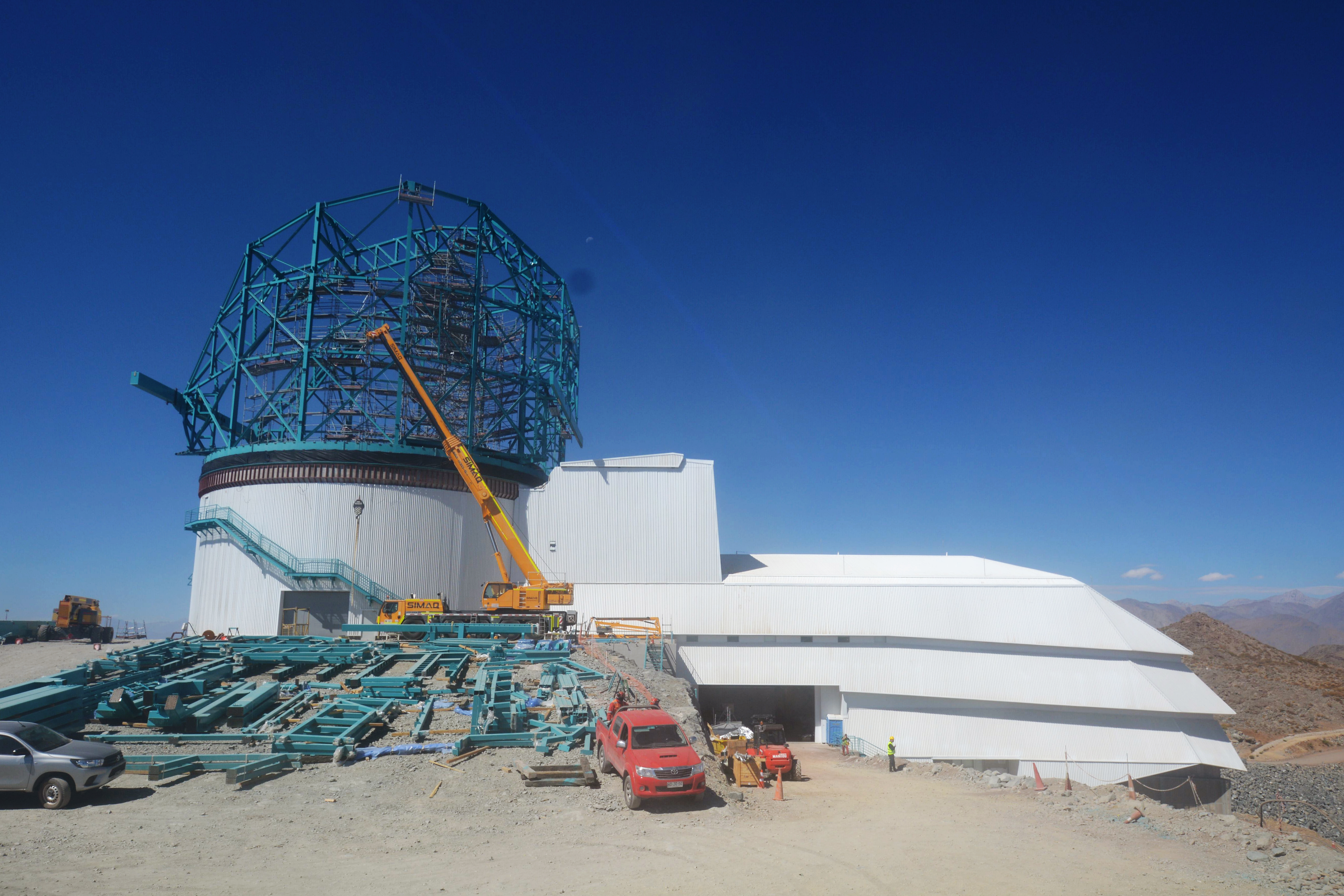 Current construction status of the LSST summit facility building on February 12, 2019.